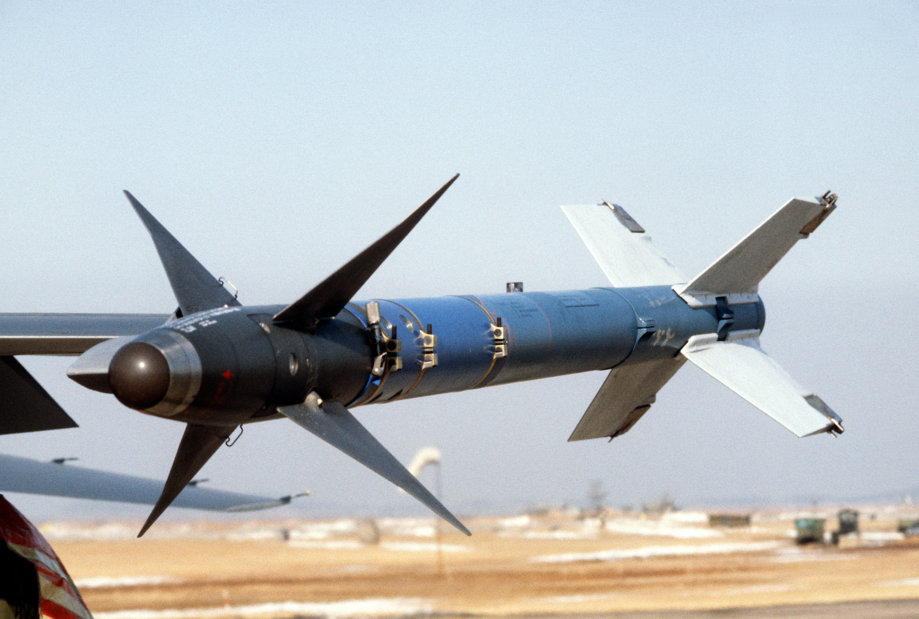 A close-up view of an AIM-9L Sidewinder training missile mounted on the wingtip of an F-16 Fighting Falcon aircraft. The aircraft is assigned to the 35th Tactical Fighter Squadron, 8th Tactical Fighter Wing. Location: KUNSAN AIR BASE